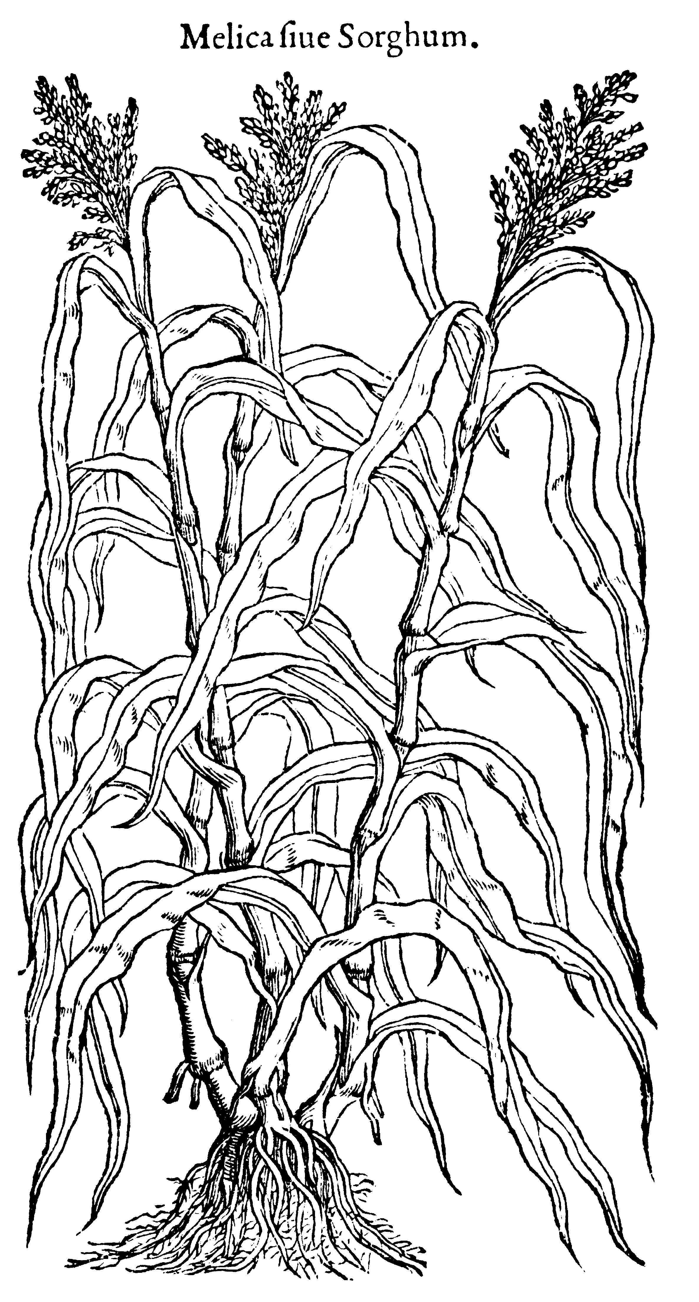 Melica siue Sorghum, page 499